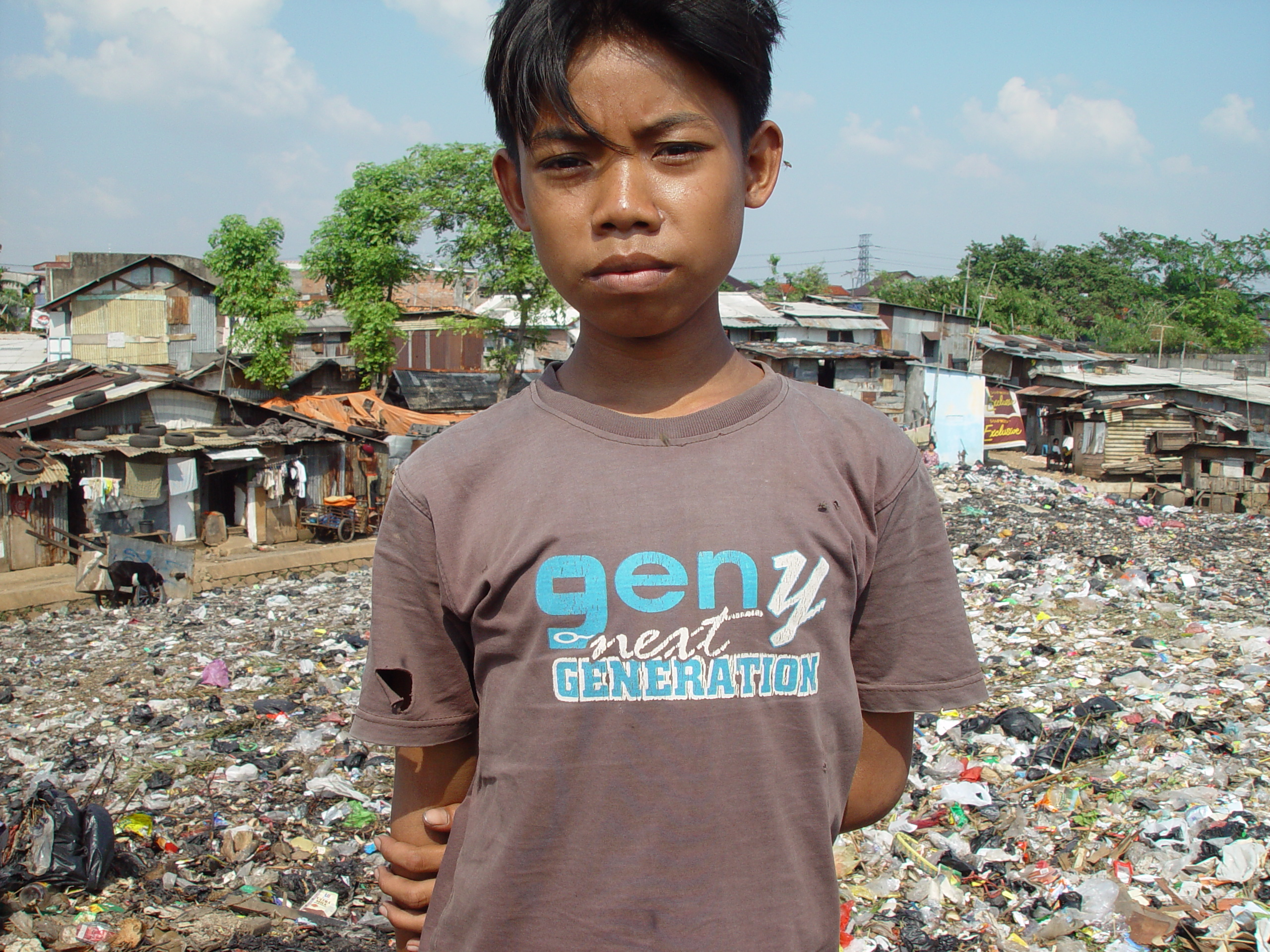 A young boy living on an East Cipinang garbage dump, Jakarta Indonesia. Picture taken by Jonathan McIntosh, 2004.